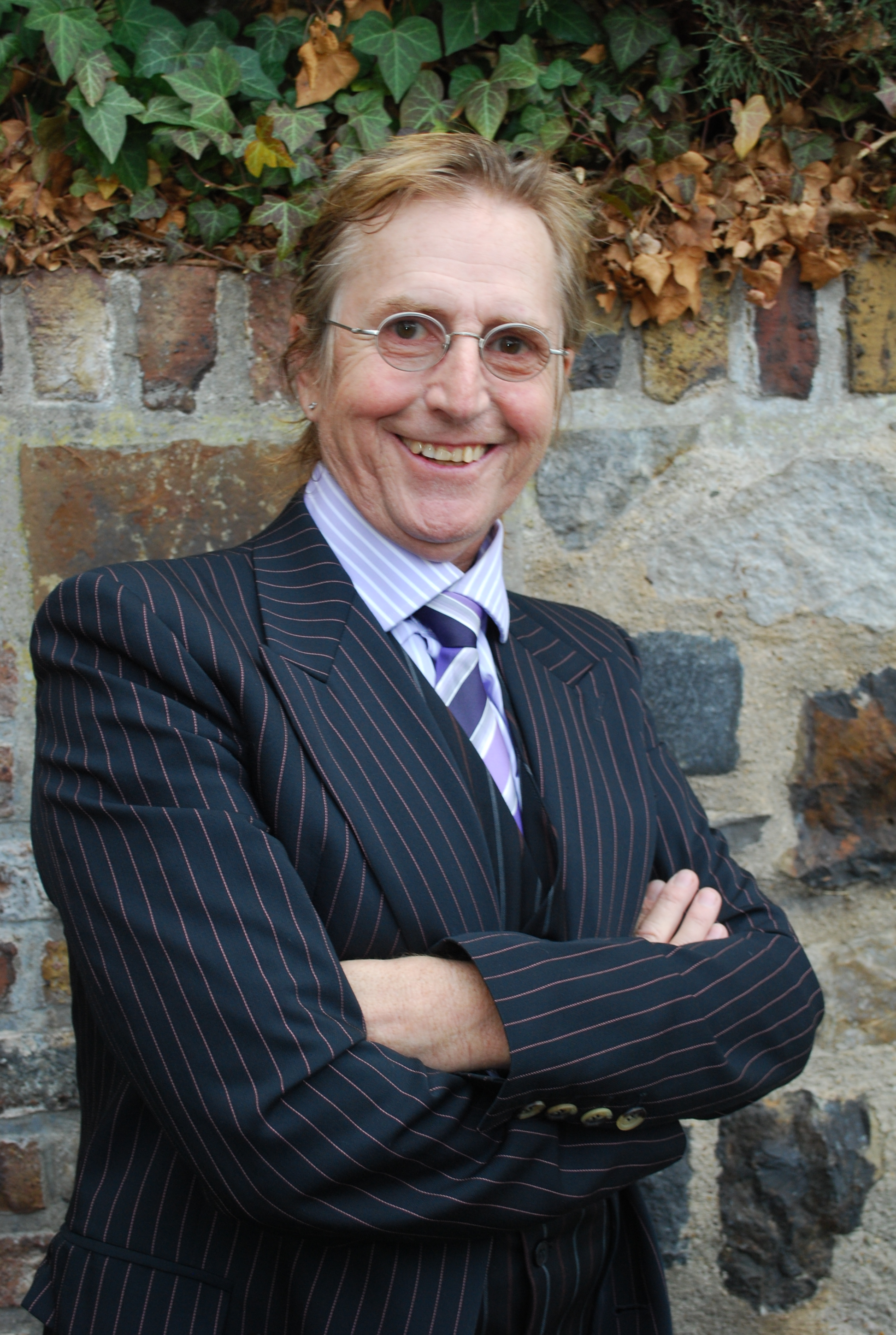 Germany, Bonn-Bad Godesberg: the German actor Martin Semmelrogge during rehearsals for the play "Der Rosenkrieg" at the "Kleines Theater Bad Godesberg".